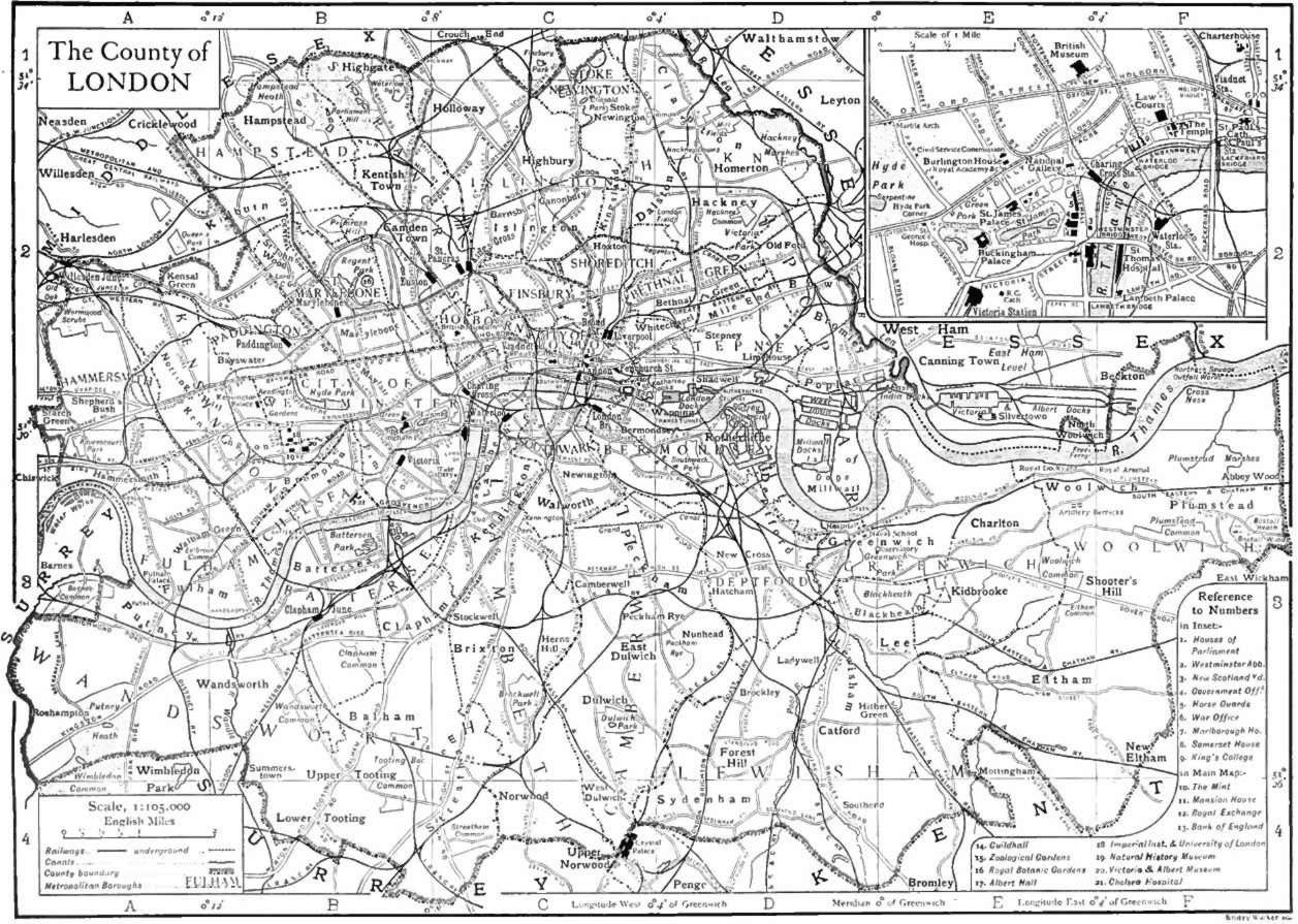 Map of London and Vicinity.